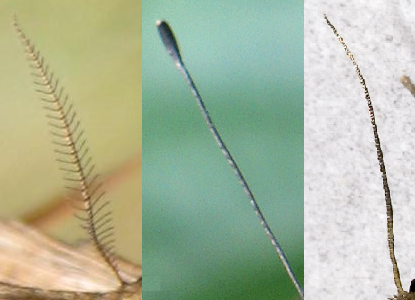 Antennas of different lepidopterians.